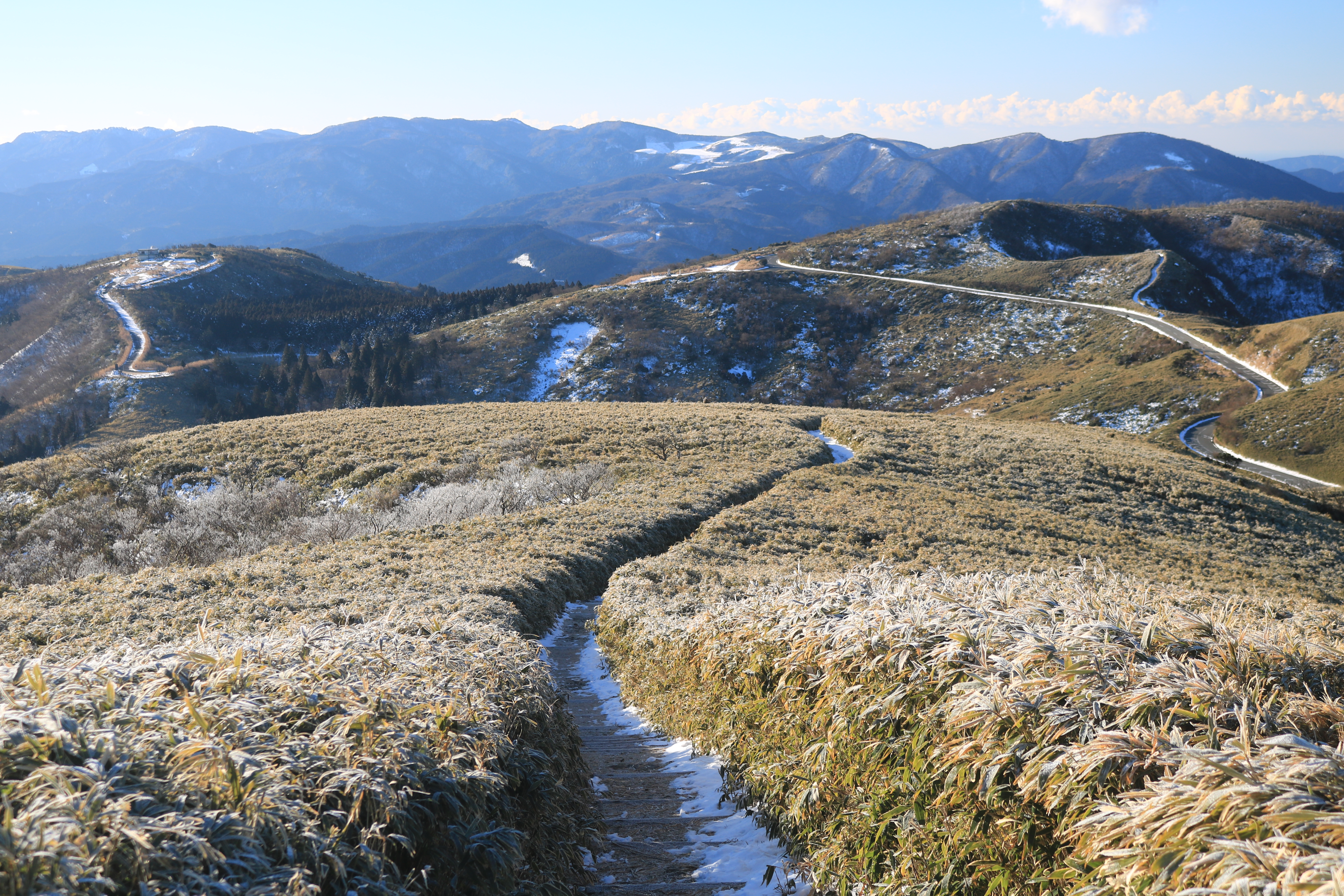 Nishiizu Skyline (Shizuoka Prefectural Road Route 127) seen from Mount Daruma in Izu, Shizuoka Prefecture, Japan.